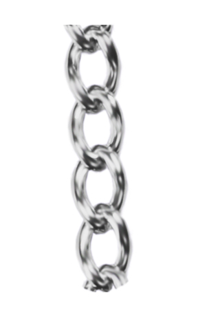 Illustration of the links in a twisted link chain